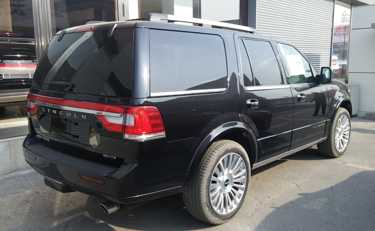 Lincoln Navigator III facelift photographed in Harbin, Heilongjiang province, China.